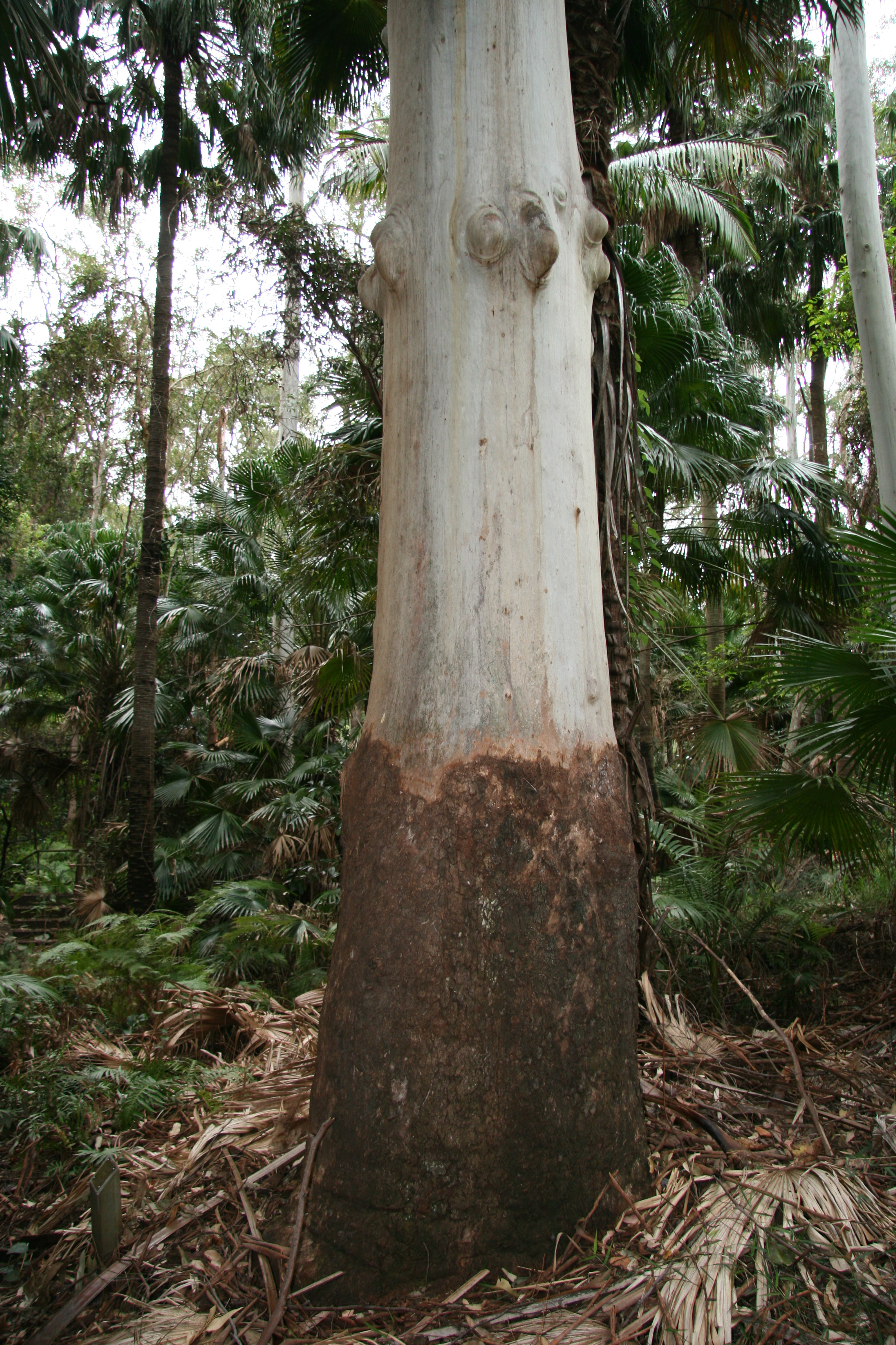 Eucalyptus grandis trunk, Alex Forest Conservation Area, Alexandra Headland, Sunshine Coast.